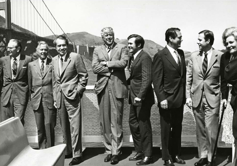 US President Richard Nixon standing on boat with politicians—“Maillard, Morton, Bob Dole (?), Pete Wilson, Pat Nixon” – in front of Golden Gate Bridge, 1972. The visit was to publicize the GOGA bill before Congress.